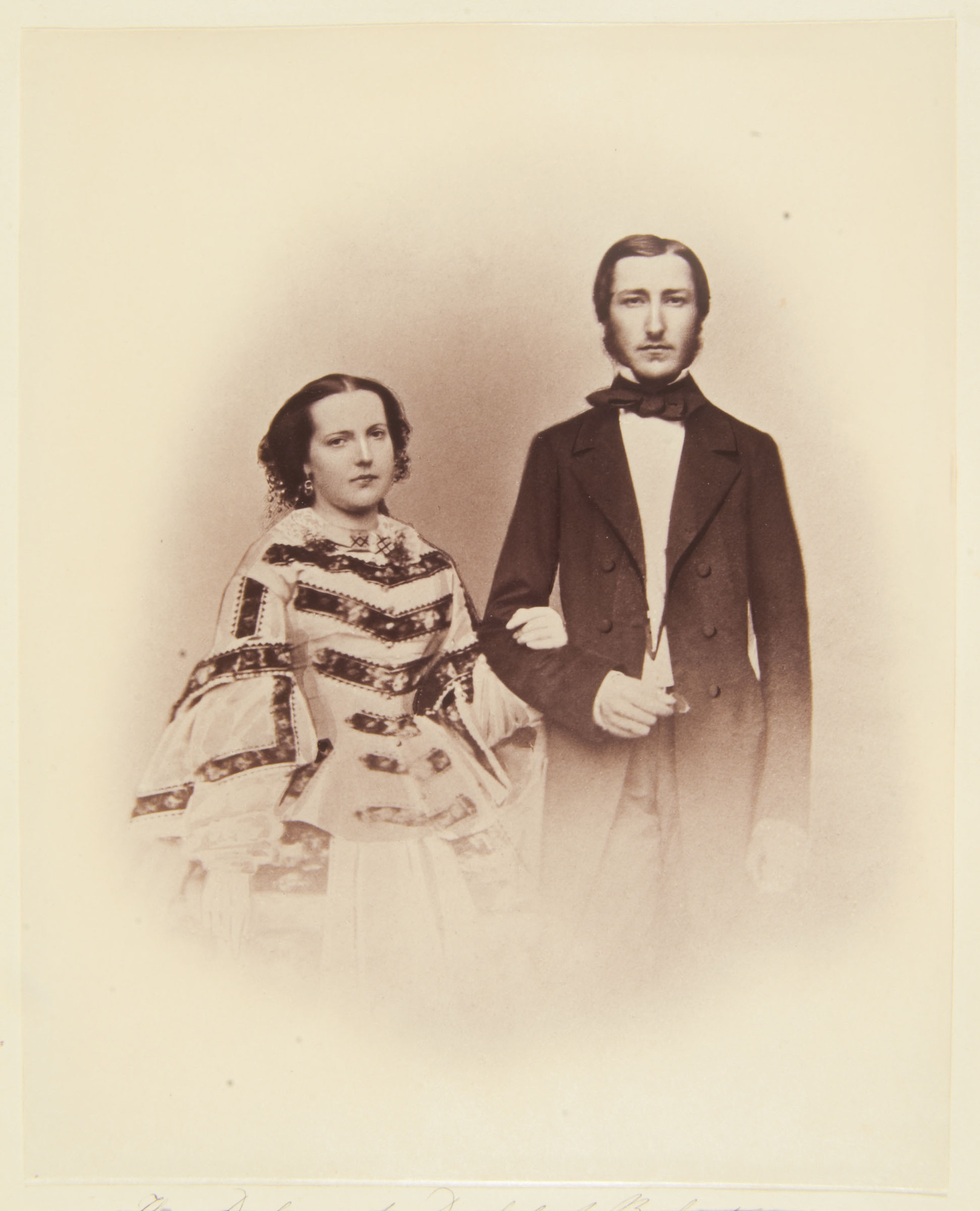 Archduchess Marie Henriette of Austria-Hungary and her fiance Prince Leopold, Duke of Brabant (later King of the Belgians).